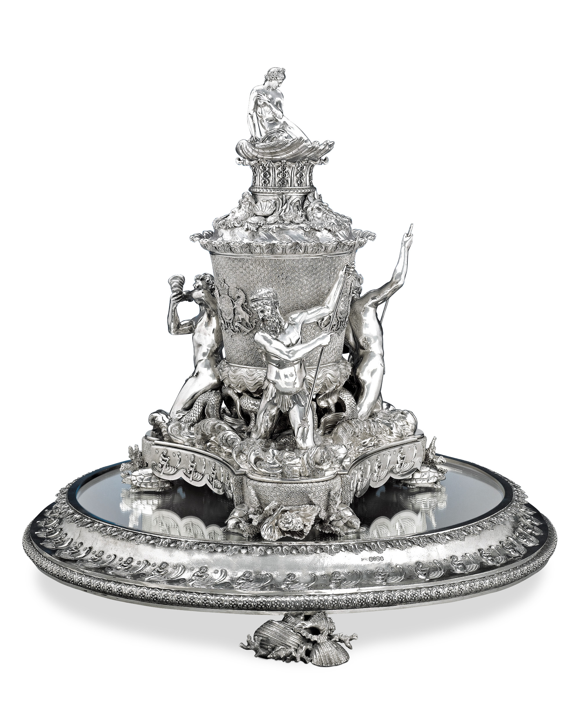 Silver ice pail from the Grand Service made by royal silversmiths Rundell, Bridge, and Rundell for King George IV of England. Hallmarked by Phillip Rundell, London, 1827